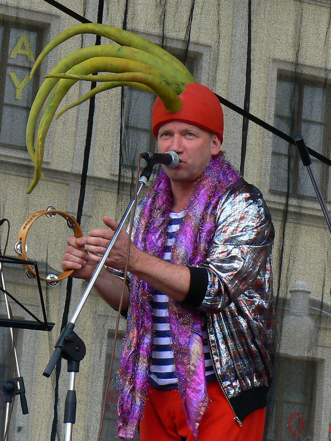 David Koller performing with České Budějovice band Kašpárek v rohlíku